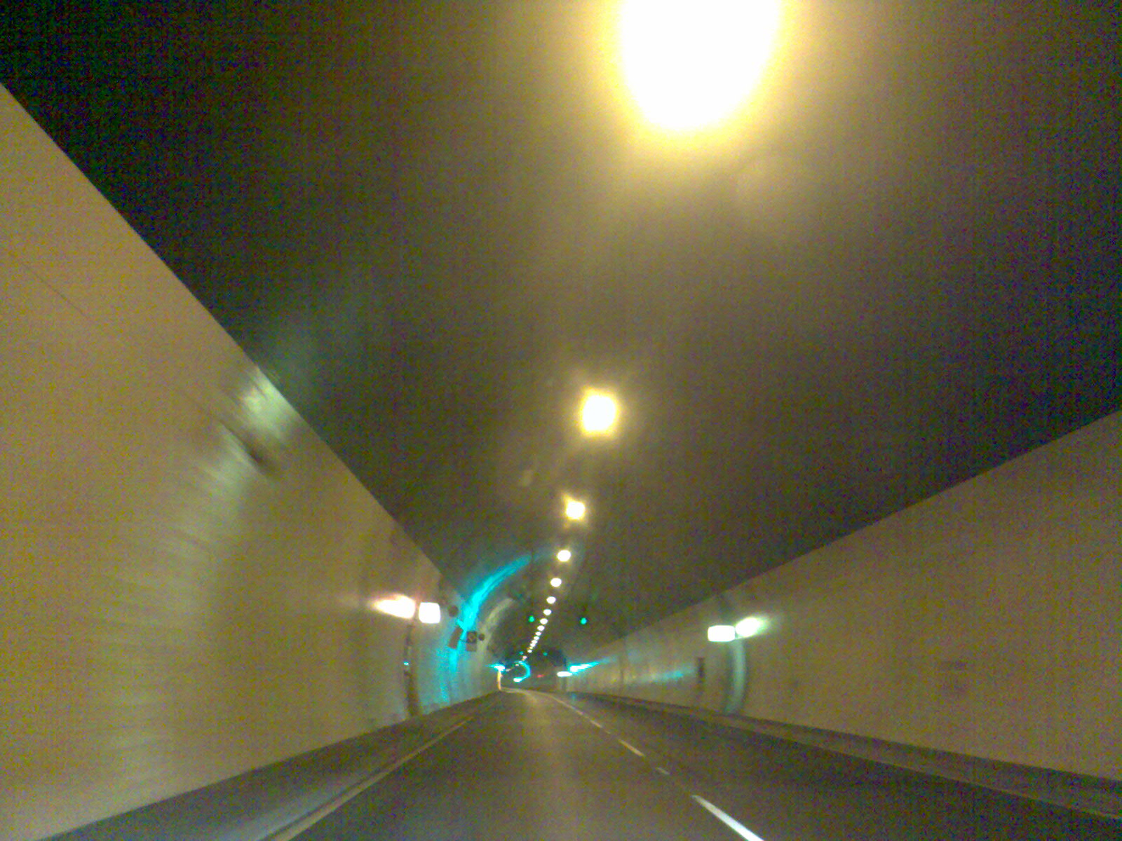 Photograph of interior of the Dublin Port Tunnel.